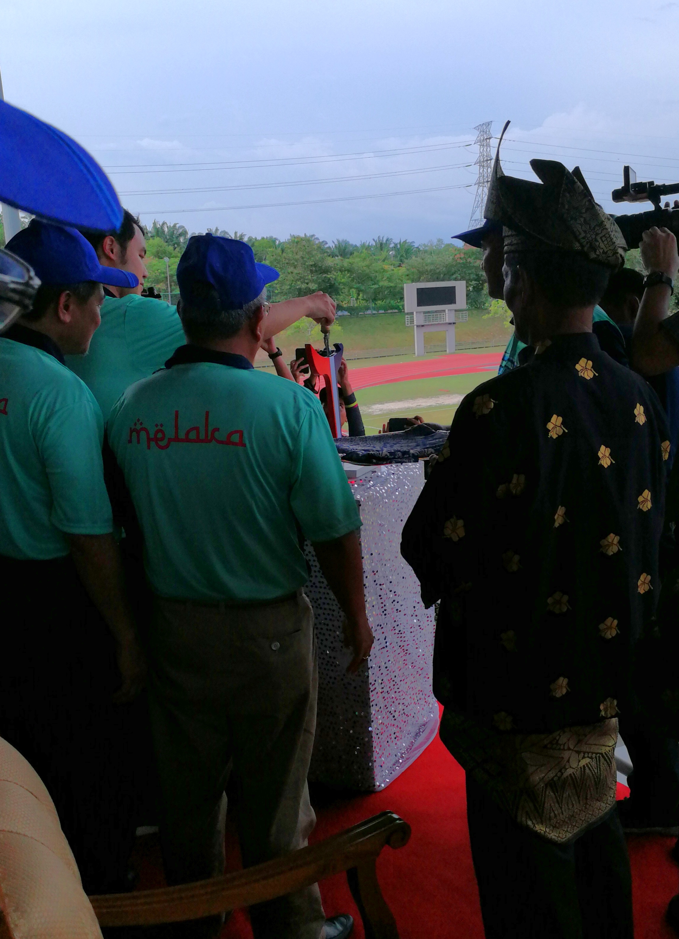 Pesuma32 Pelancaran oleh YB Kerk Chee Yee